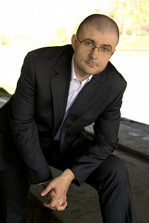 Jacek Dukaj photographed by Anna Zemanek